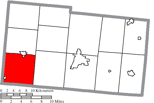 Map of the municipal and township boundaries of Champaign County, Ohio, United States, as of the 2000 census, with the location of Jackson Township highlighted. Township borders are shown only in unincorporated areas in order to differentiate incorporated and unincorporated areas more clearly.